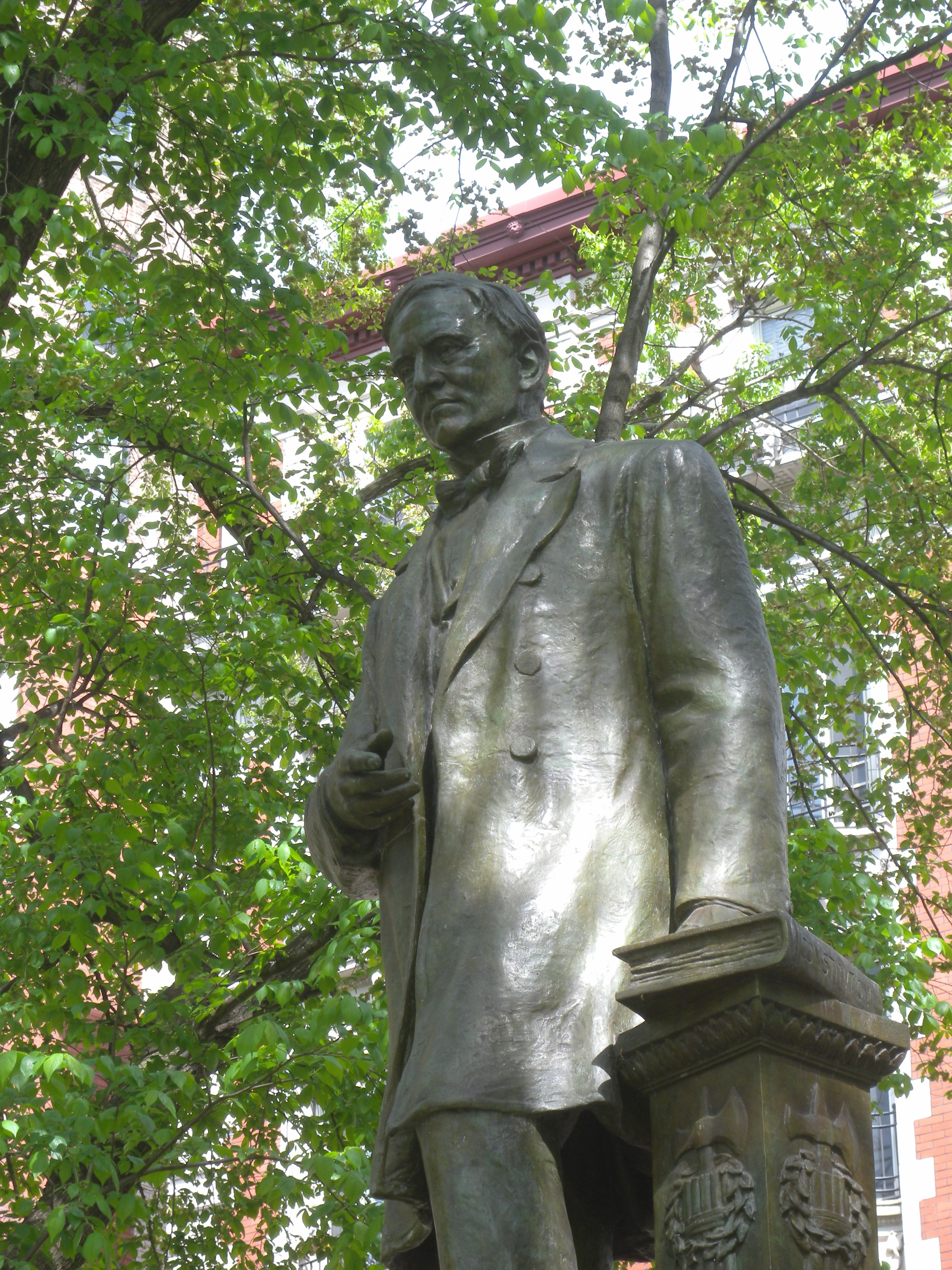 Zoomed in, looking northeast at Tilden statue at the foot of 112th St on a sunny afternoon. See File:Tilden 112 jeh.jpg for overall view.